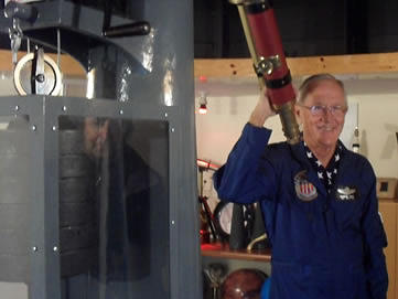 Charles Duke at Airdrie Observatory.